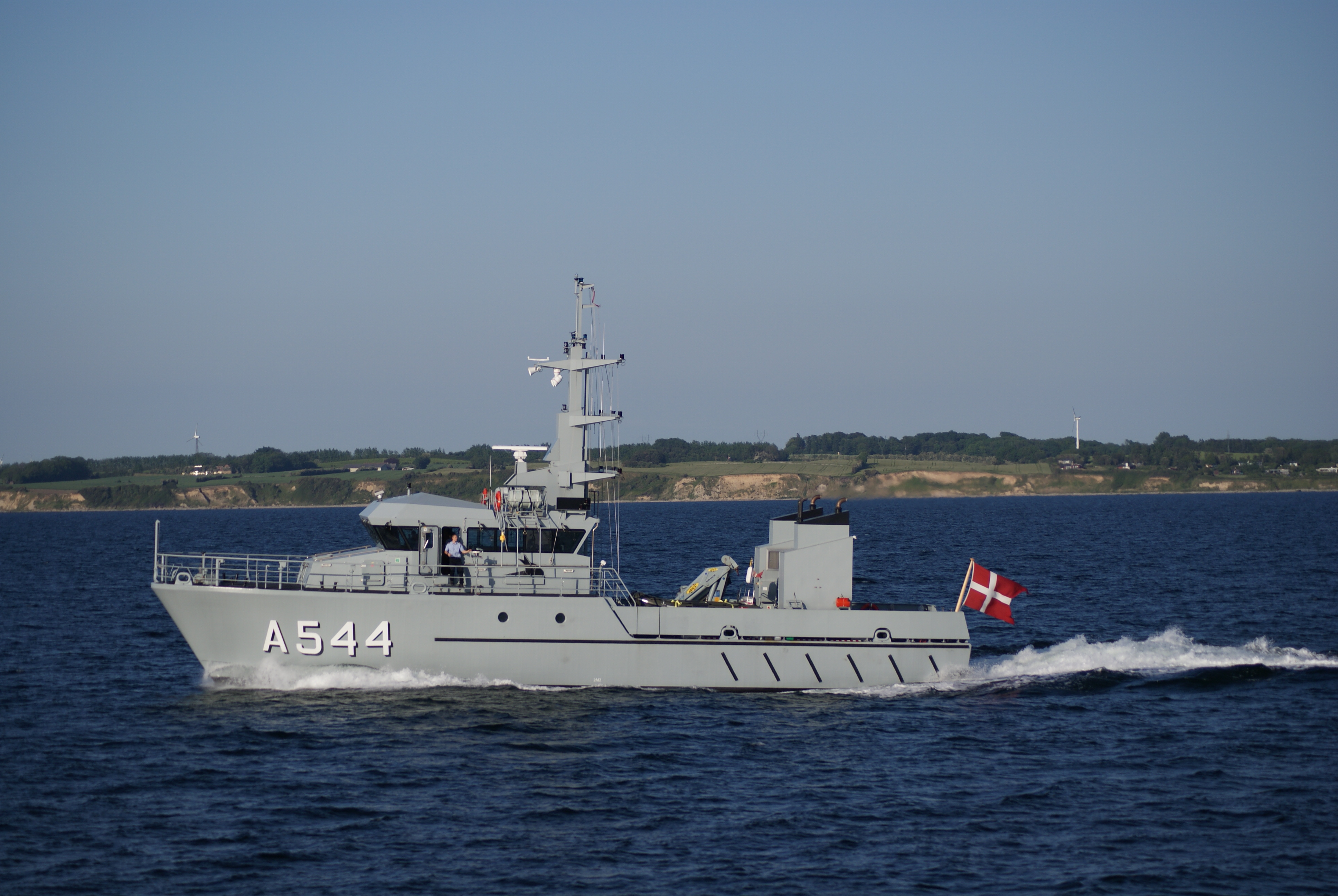 A544 Alholm is a Danish naval ship of the Holm-class. Here from Lillebælt near Bøjden, Denmark. The photo was taken from the Danish naval ship Havfruen. The boat is used for training cadets. The geolocation is only approximate.